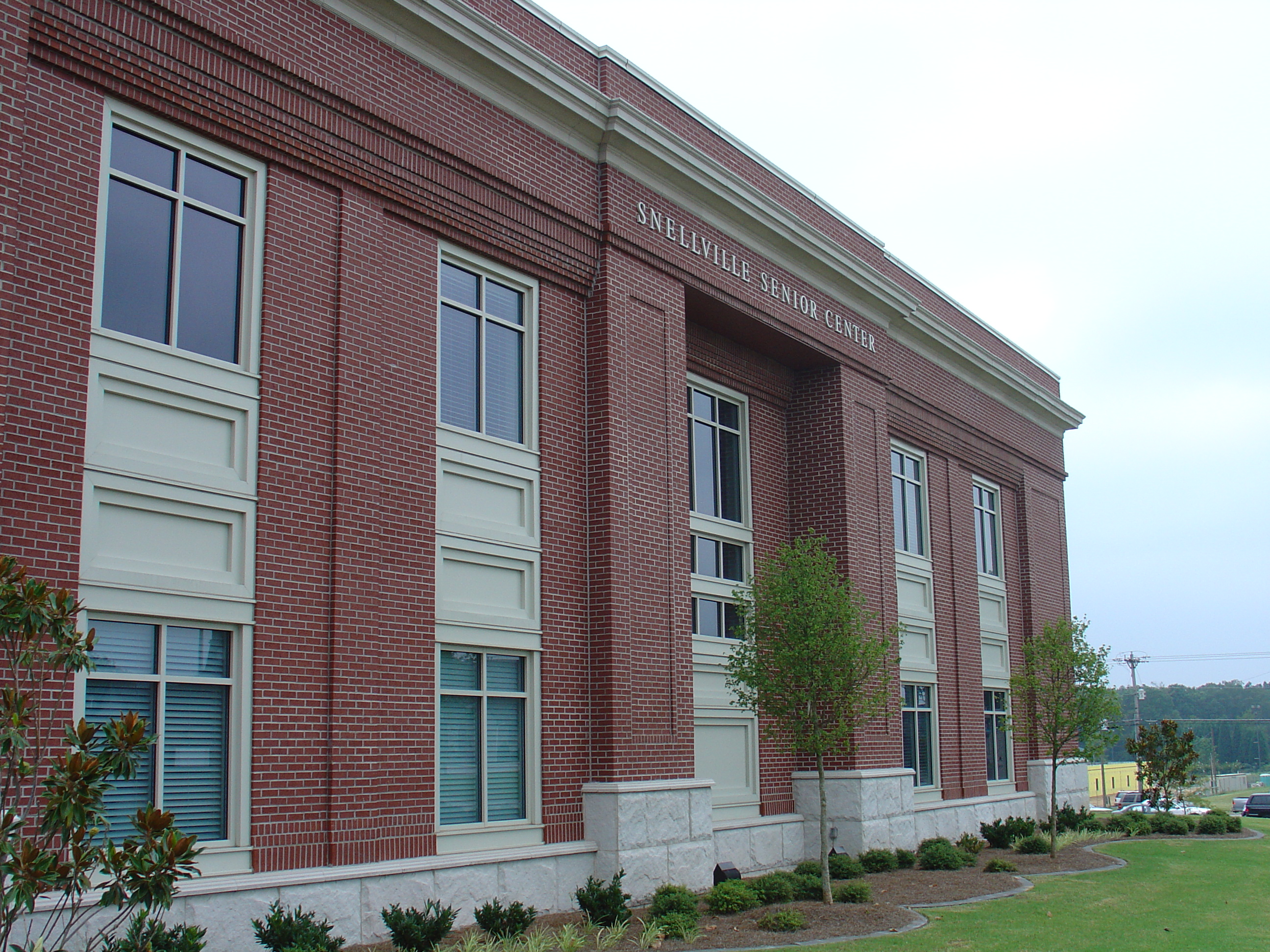 Taken by myself on 8/12/07